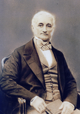 William Burn (1789-1870), Scottish-born architect, prolific designer of country houses